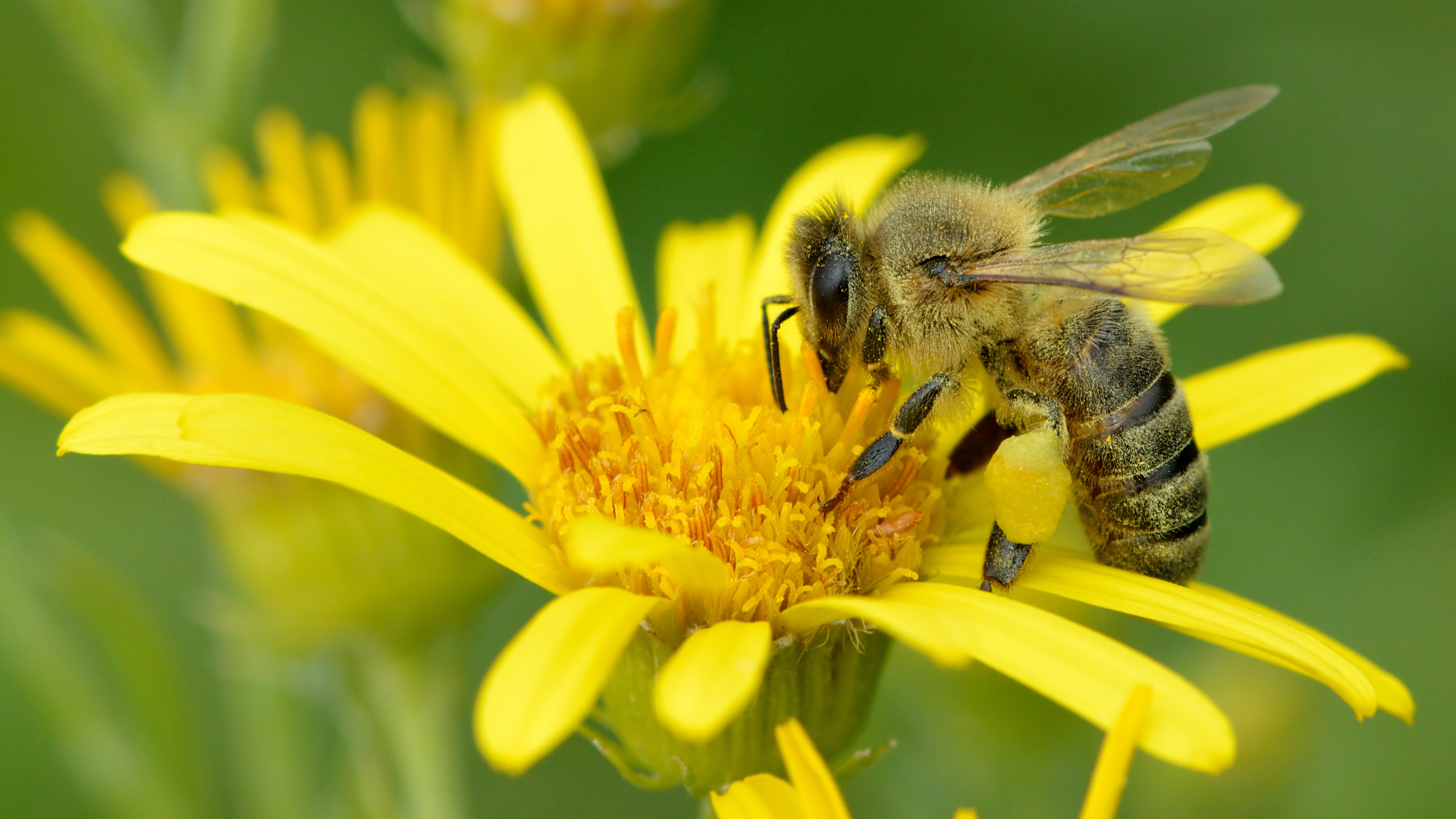 Honey bee (Apis mellifera) on the fen ragwort (Senecio paludosus). Niitvälja bog, Northwestern Estonia.